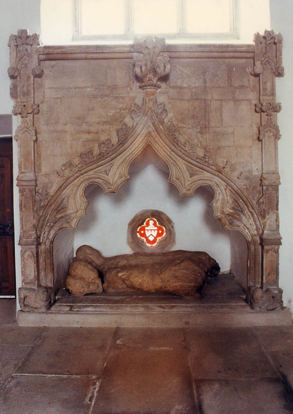 St George's Church, Modbury, Devon. Effigy of Sir John Prideaux (c.1347-1403), MP for Devon in 1383 and 1388, of Orcharton (modern: Orcheton) in the parish of Modbury, and his wife Elizabeth, of unrecorded faily( (Vivian, Lt.Col. J.L., (Ed.) The Visitations of the County of Devon: Comprising the Heralds' Visitations of 1531, 1564 & 1620, Exeter, 1895, p.617, Pedigree of Prideaux)